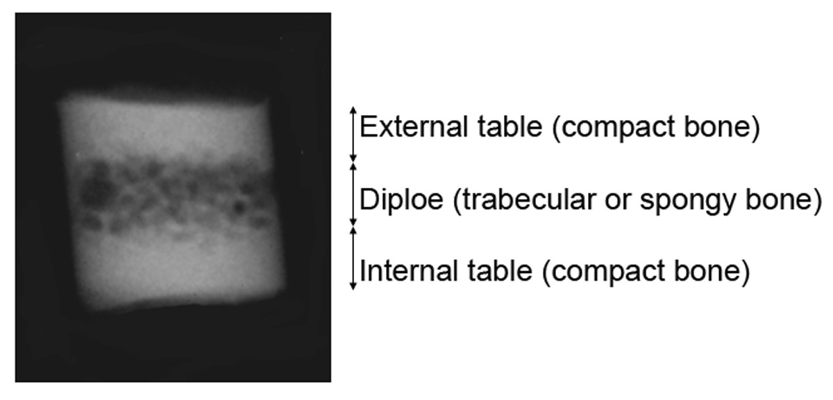 The three bone layers of the cranial vault.